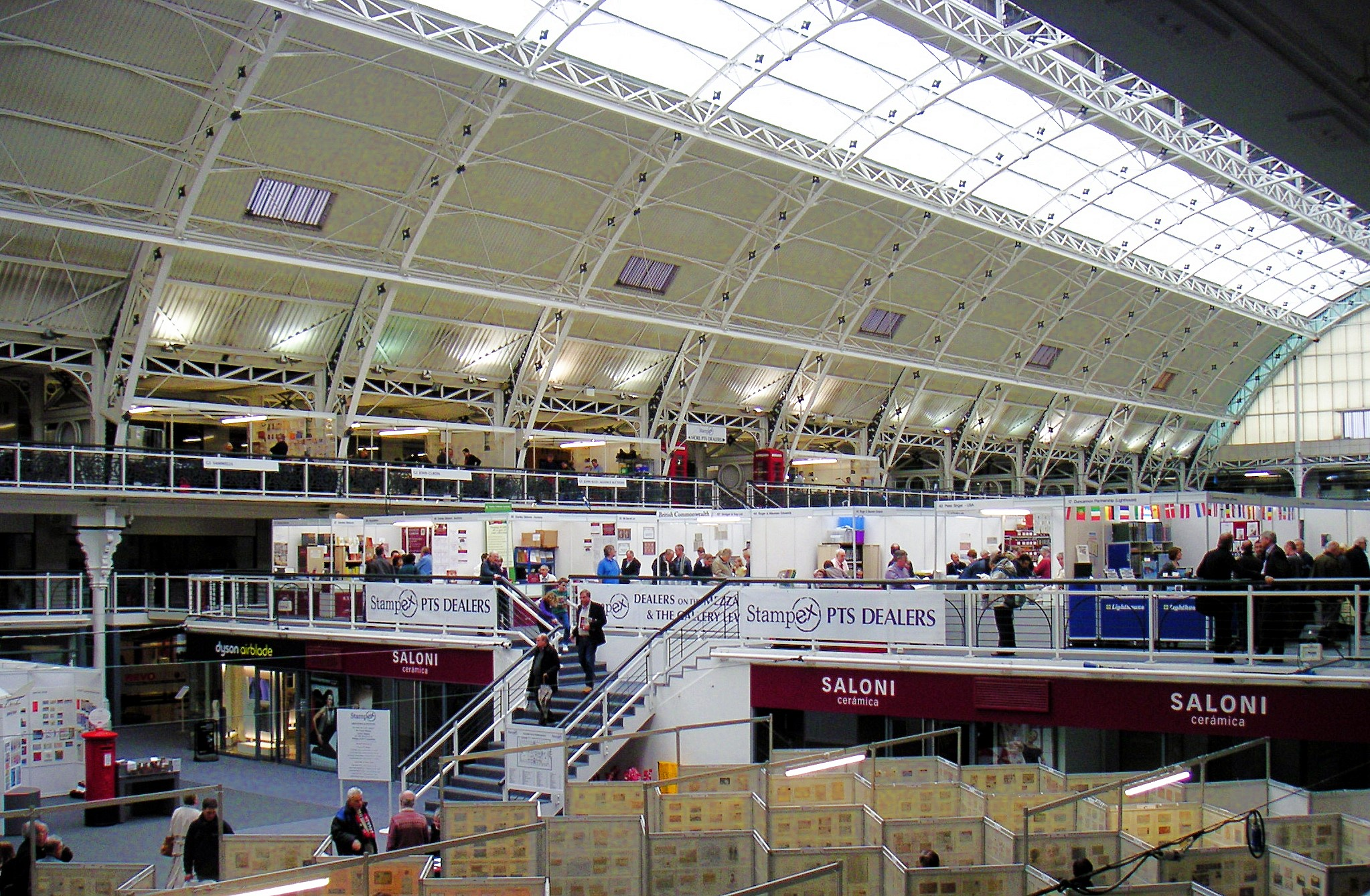 Photograph of Spring Stampex 2011 stamp show at the Business Design Centre, Islington, London and taken on Saturday 26 February 2011. Showing stamp displays in the foreground and stamp dealers booths on the first floor. All the dealers are members of the Philatelic Traders Society (PTS). The post box is a working box installed for the show.